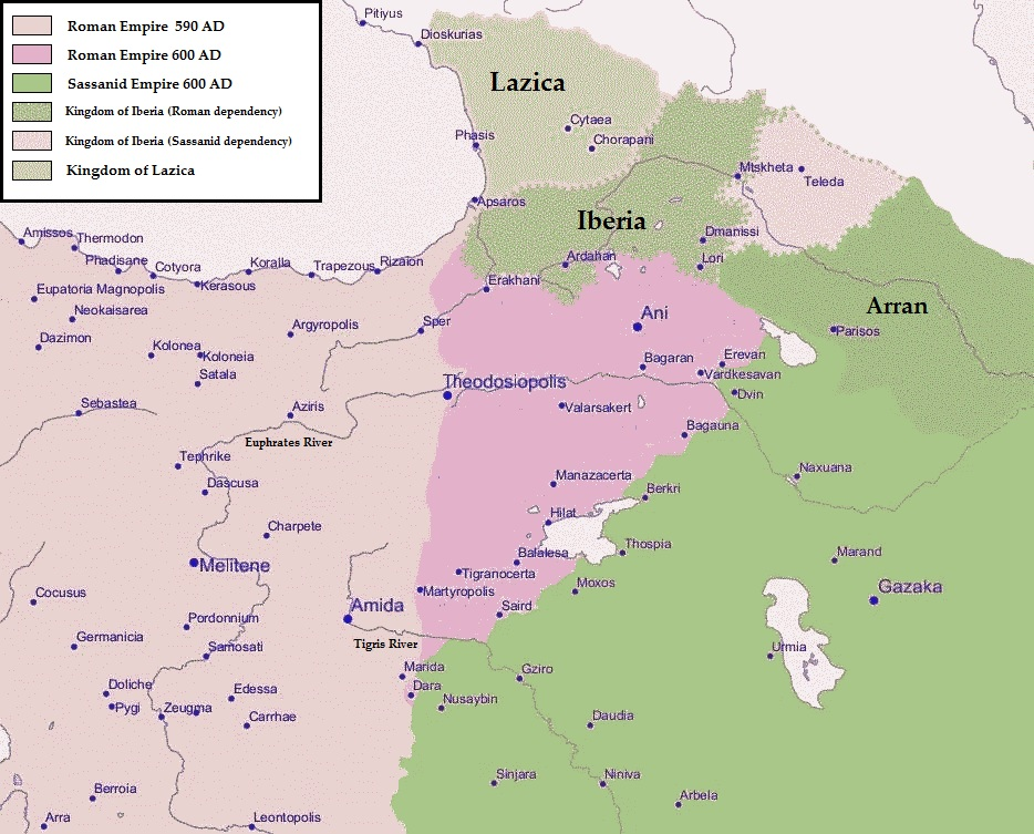 The expansion of the Roman Empire's eastern frontier after emperor Maurice's successful peace settlement with Sassanid king Khosrau II. The map includes the return of Dara and Martyropolis as part of the transfer of cities taking place at the end of the Roman–Persian War of 572–591.